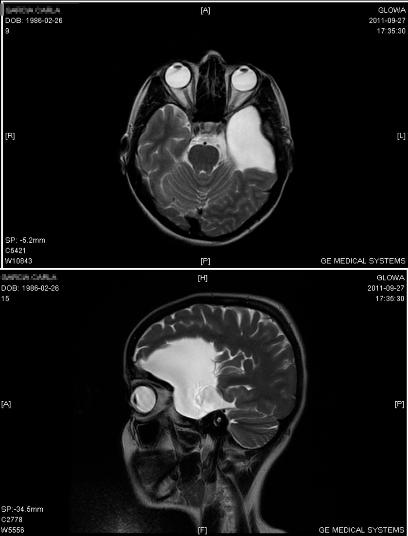 A MRI of a 25 year old girl with frontotemporal arachnoid cyst.